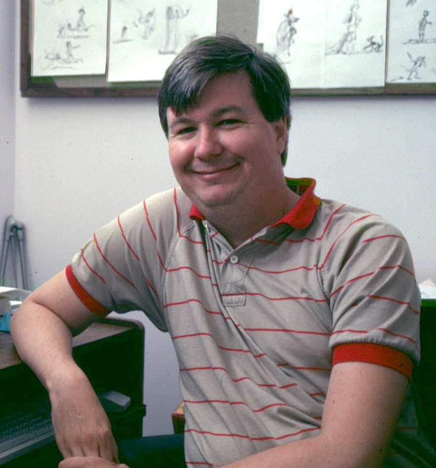 Animator Randy Cartwright, photo by User:Janke 1991 If used outside Wikipedia, must be credited thus: Photo 1991 by Wikipedia editor J-E Nyström, (User:Janke), Helsinki, Finland